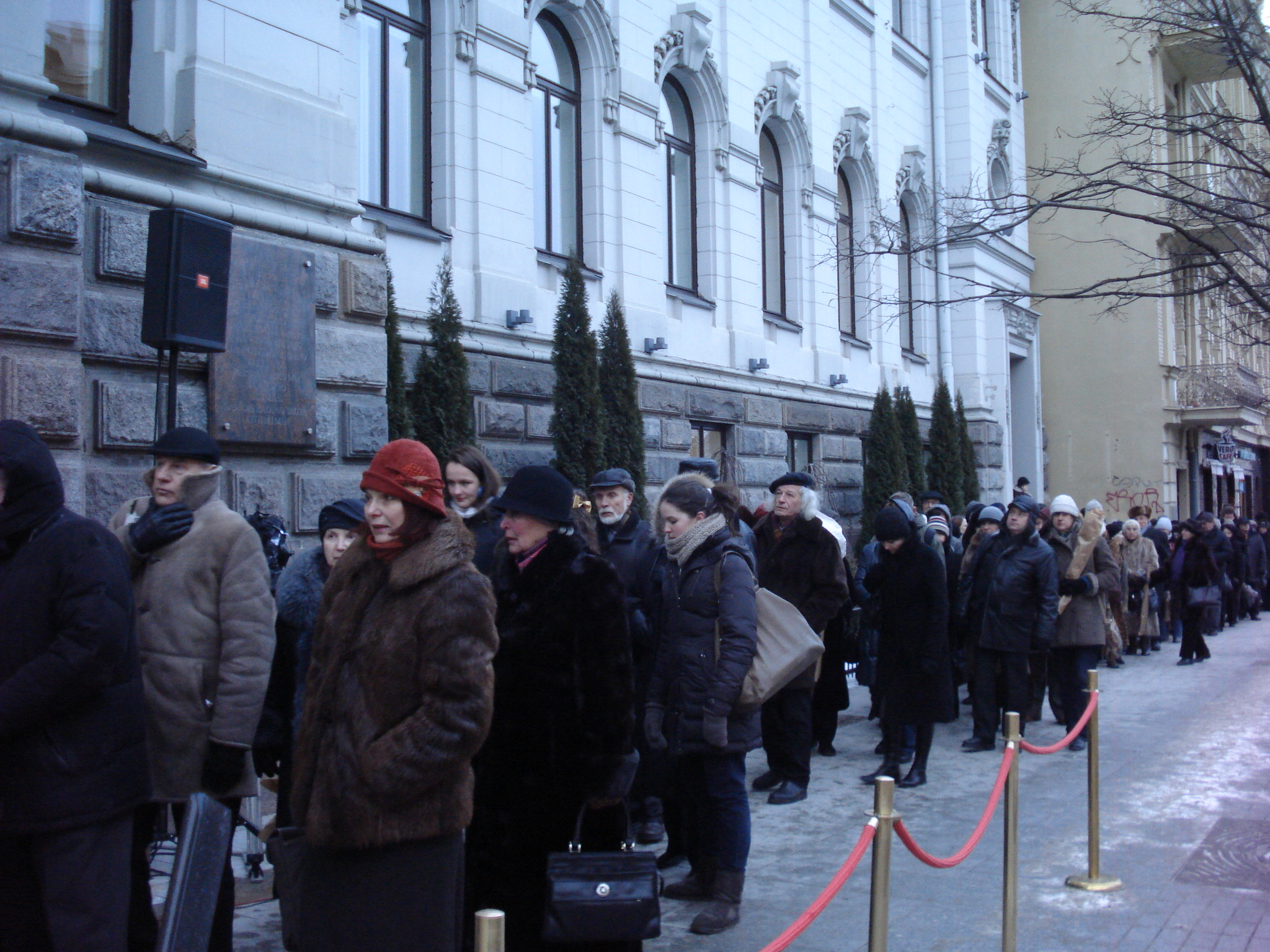 Mourners queue to pay their last respects to the poet Justinas Marcinkevičius in the Great Hall of the Lithuanian Academy of Sciences in Vilnius, Lithuania